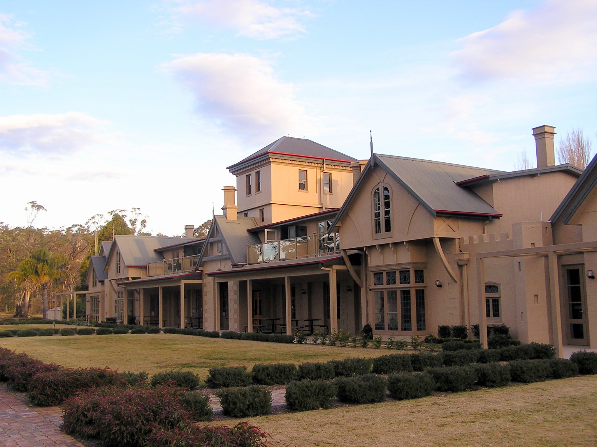 Seahorse Inn atBoydtown, Australia